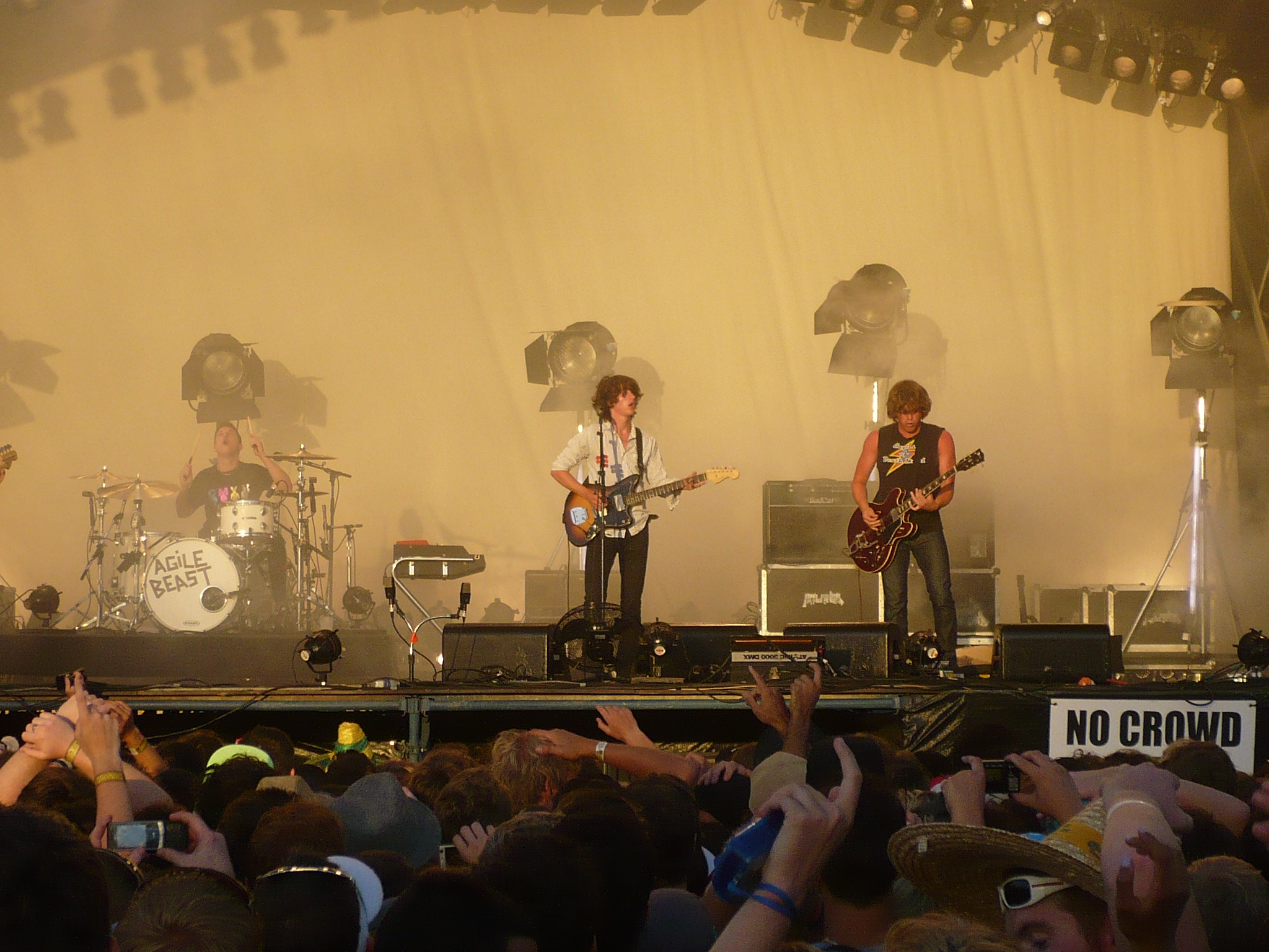 Arctic Monkeys performing at the Big Day Out 2009 in Perth, Western Australia